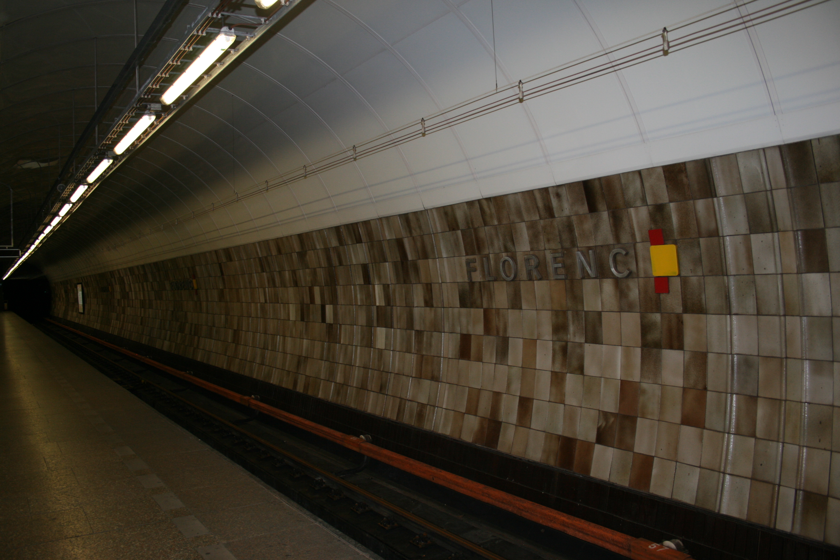 Florenc